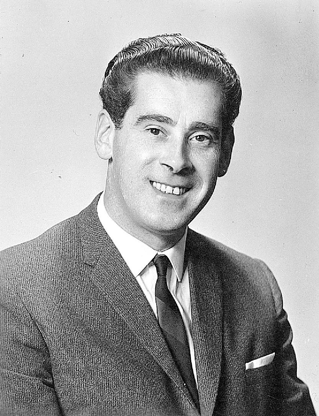 Portrait of Wellington City Councillor Gerald O'Brien.